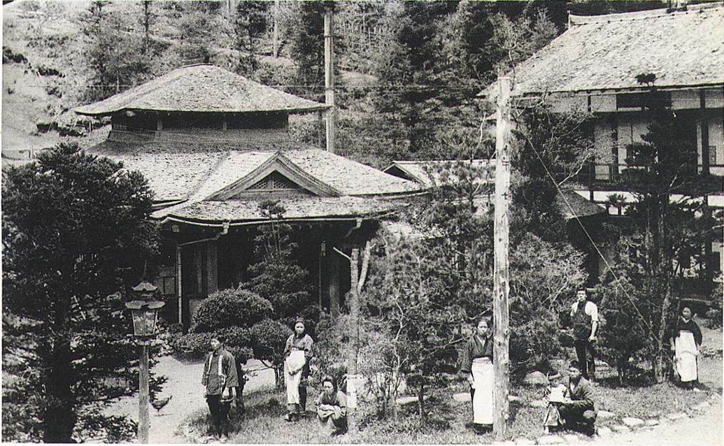 riverside view of Hoshino Onsen Ryokan